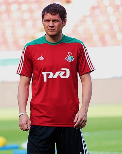 Taras Mykhalyk 14